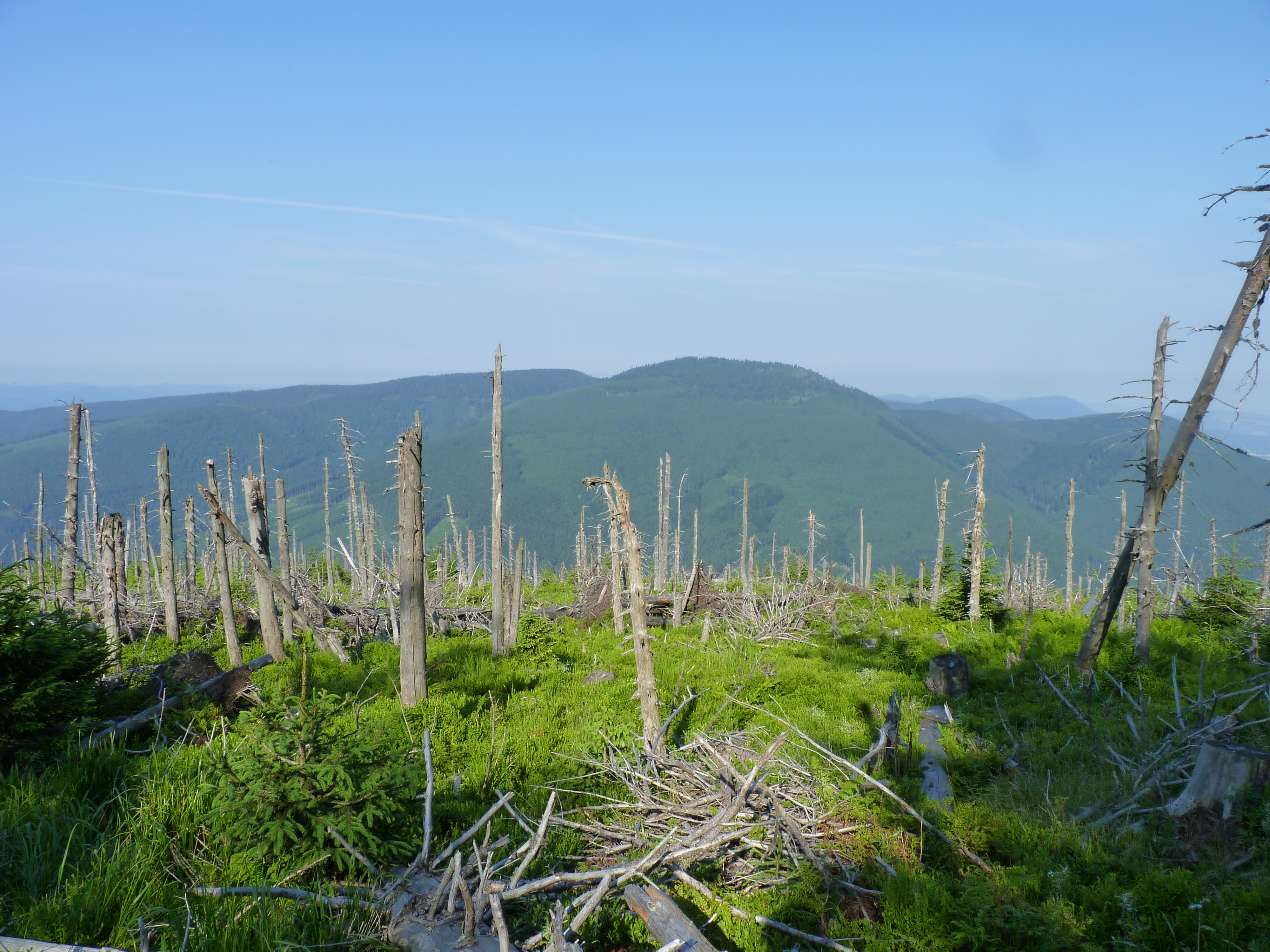 Moravian-Silesian Beskids, Czech Republic